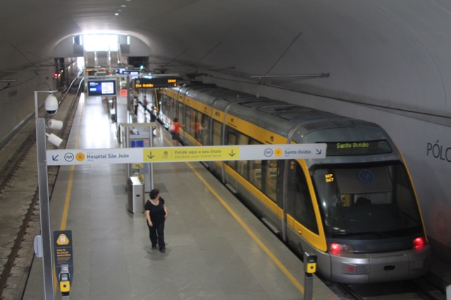 The Poló Universitário station of the Metro do Porto